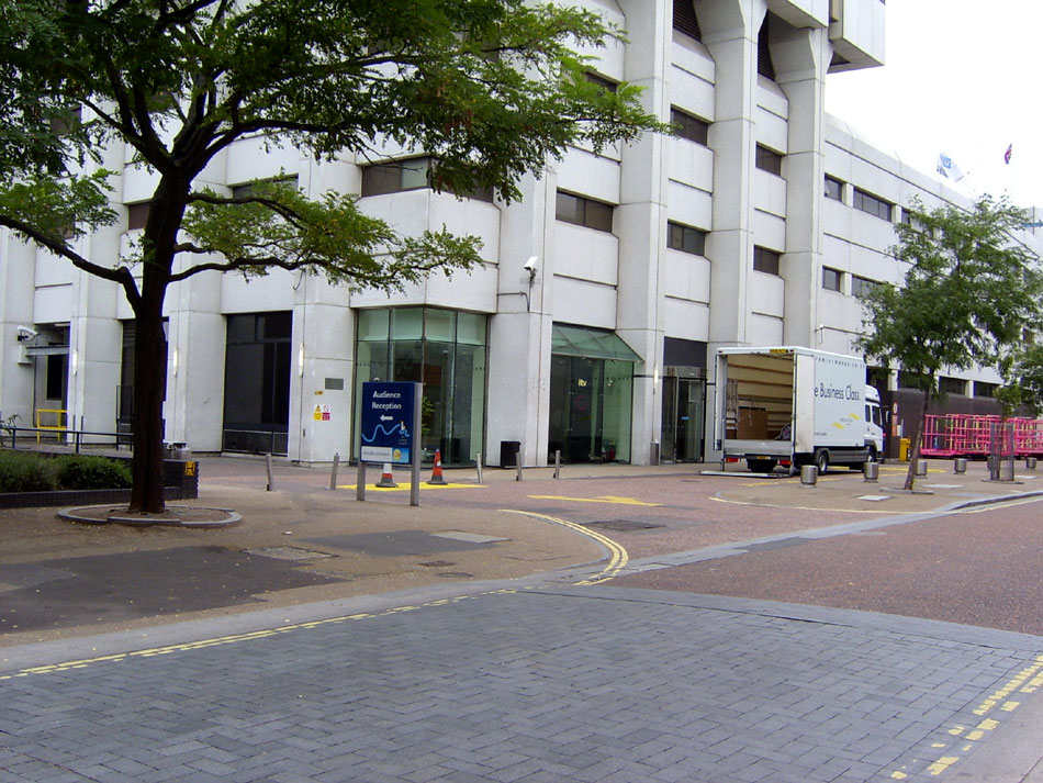 Shot of the London Studios (ITV's London HQ, and known for being the home to LWT) from Upper Ground, facing the reception area. Photo taken on Saturday 2nd September 2006 by Peter Thomas.